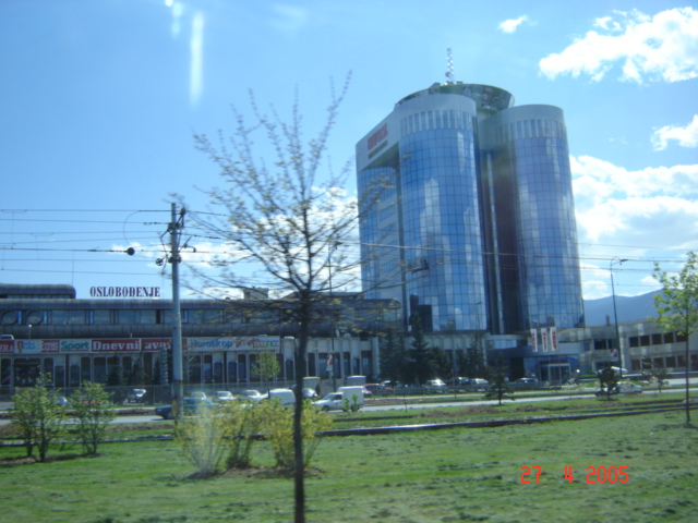 The headquarters of Sarajevo-based newspapers Oslobodjenje and Dnevni Avaz, in 2005